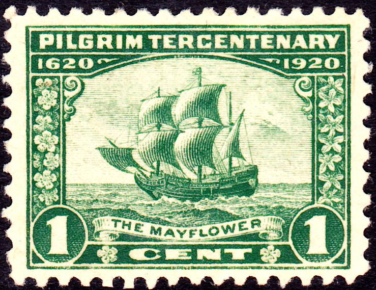 Mayflower_1920_Issue-1c.jpg